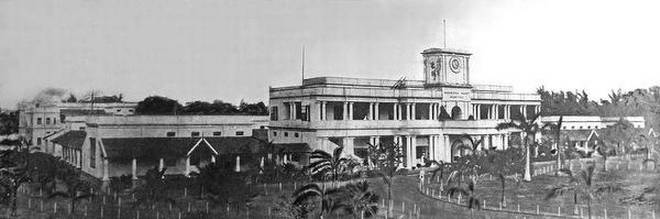 Christina Rainy Hospital in its prime - built in 1914 in Madras - guess at 1920 for pic but could be older